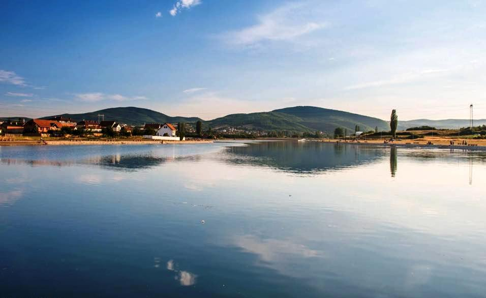 Mitrovica Lake (Kosova)